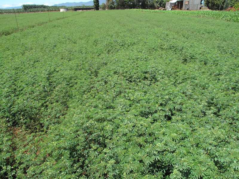 Desmanthus virgatus grown for hay